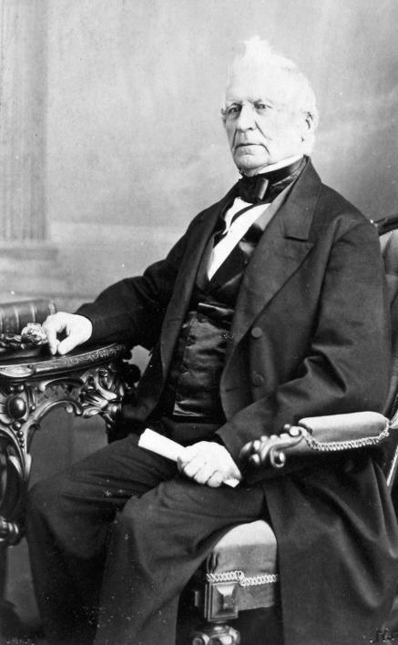 Louis-Joseph Papineau, by William Notman, 1865.